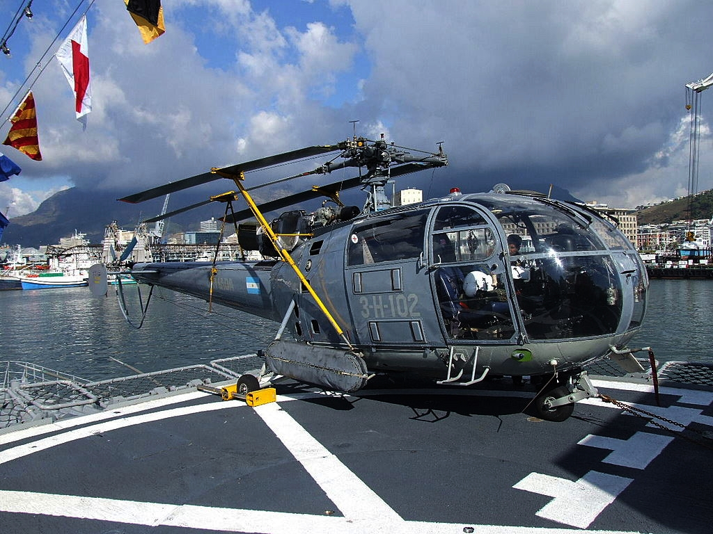 Argentine Navy Alouette III 3-H-102 onboard corvette ARA Rosales.